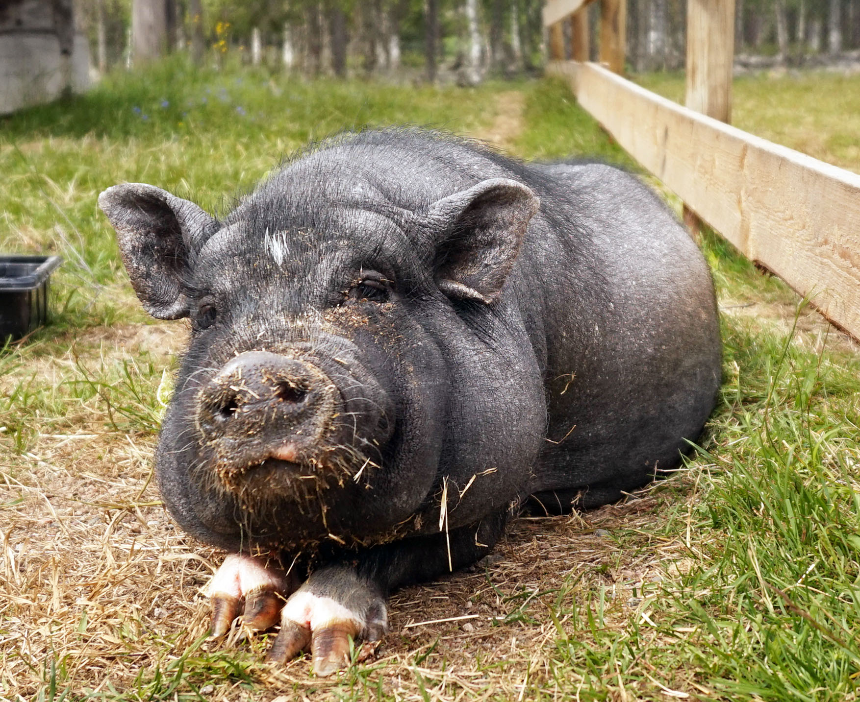 Ysitien lemmikki zoo in Jyväskylä, Finland.